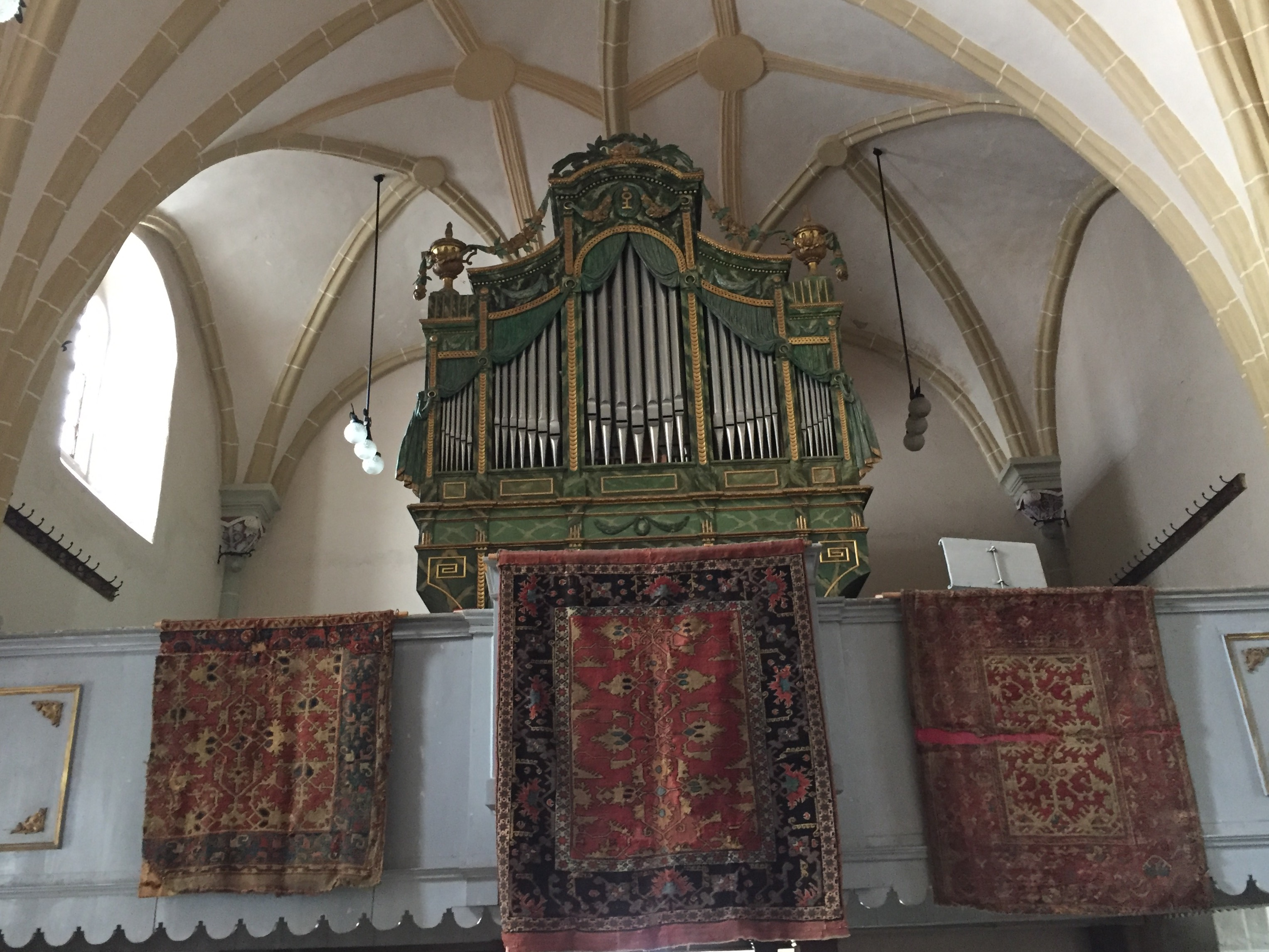 "Transylvanian" rugs in the Church Fortress of Hărman, Romania. The "Lotto" rug to the left is cut approximately at half of its original length, the one to the right has traces of wear, reflecting their previous use on the church benches.